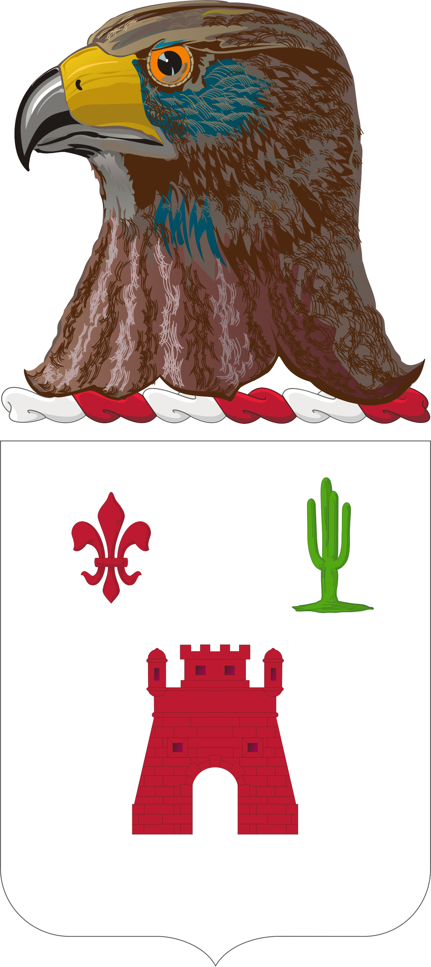 Description/Blazon Shield Argent, a Spanish castle debased Gules, to chief a fleur-de-lis of the like and on a mount a giant cactus Vert. Crest That for the regiments and separate battalions of the Iowa Army National Guard: On a wreath of the colors Argent and Gules, a hawk's head erased Proper. Motto AVAUNCEZ (Advance, or Forward). Symbolism Shield The shield is white, the old Infantry color. The Spanish castle, taken from the Spanish Campaign Medal, is used to represent military service outside the continental limits of the United States, while the cactus and fleur-de-lis are for Mexican Border and World War I service, respectively. Crest The crest is that of the Iowa Army National Guard. Background The coat of arms was approved on 15 August 1933.